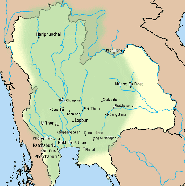 Spread of Dvaravati culture in early Thailand, own creation based on "BlankMap_Thailand.png".